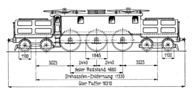 North Eastern Railway electric locomotive No 13.